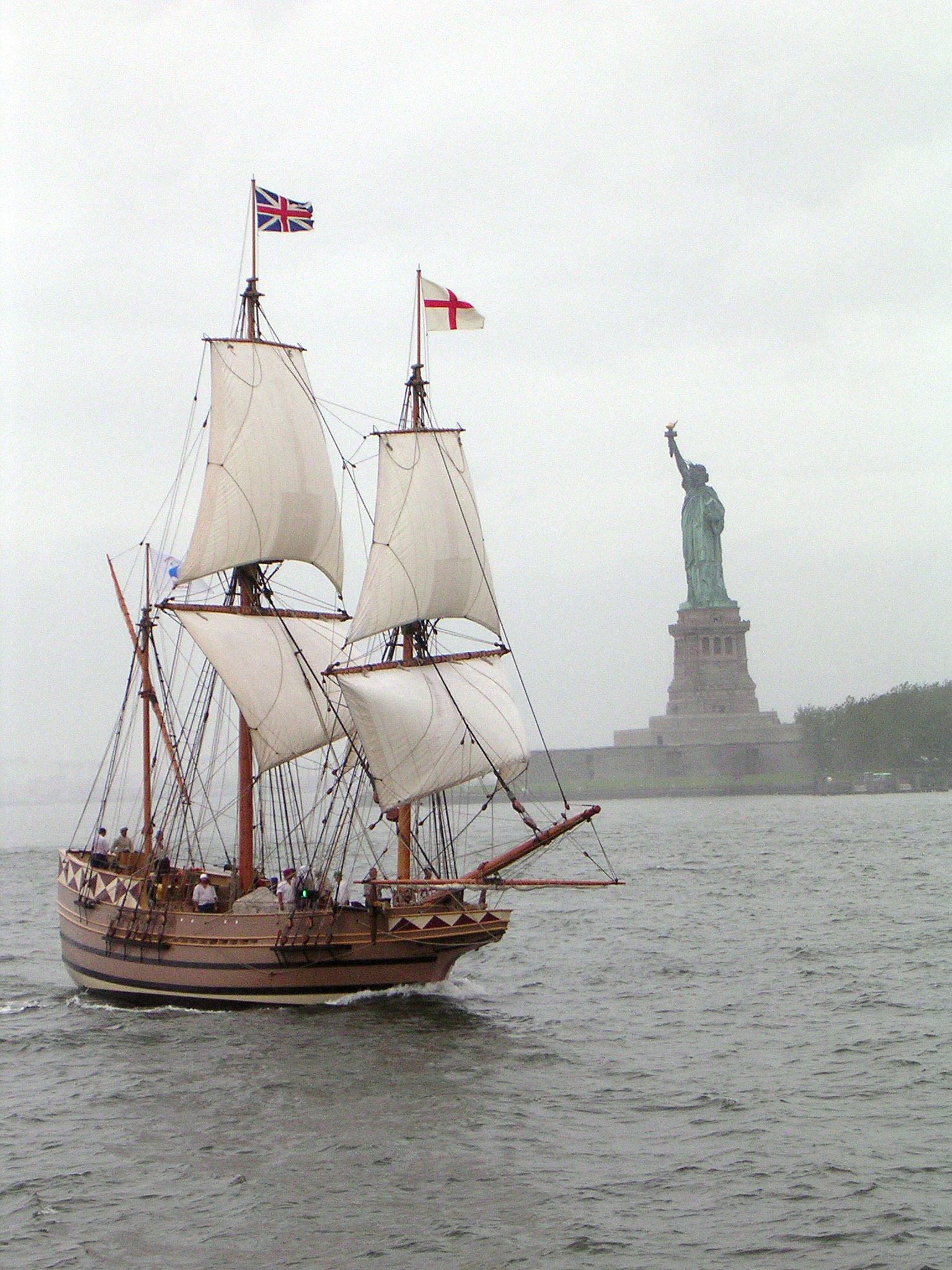 Public Domain. Credit: NASA. For more information Visit NASA's Multimedia Gallery Please consult NASA's Visit image use guidelines. If you plan to use an image and especially if you are considering any commercial usage, you should be aware that some restrictions may apply. _____________ NOTE: In most cases, NASA does not assert copyright protection for its images, but proper attribution may be required. This may be to NASA or various agencies and individuals that may work on any number of projects with NASA. Please DO NOT ATTRIBUTE TO PINGNEWS. You may say found via pingnews but pingnews is neither the creator nor the owner of these materials. _________________ This replica of the 17th century ship Godspeed was under full sail when it cruised past the Statute of Liberty in New York harbor. A team from NASA traveled with the Godspeed to six East Coast ports during the summer with an interactive exhibit highlighting the connections between the adventurous men and women who settled in Virginia almost 400 years ago and NASA's plans to explore space and establish a presence on other worlds. NASA's exhibit gave an estimated 190,000 visitors the chance to make a personalized "space postcard," take photographs as an astronaut or settler and win prizes in a NASA trivia game. The Godspeed -- an 88-foot replica of the ship that brought the first English colonists to America -- acted as a floating museum, educating more than 456,000 visitors in six cities about exploration of the past.